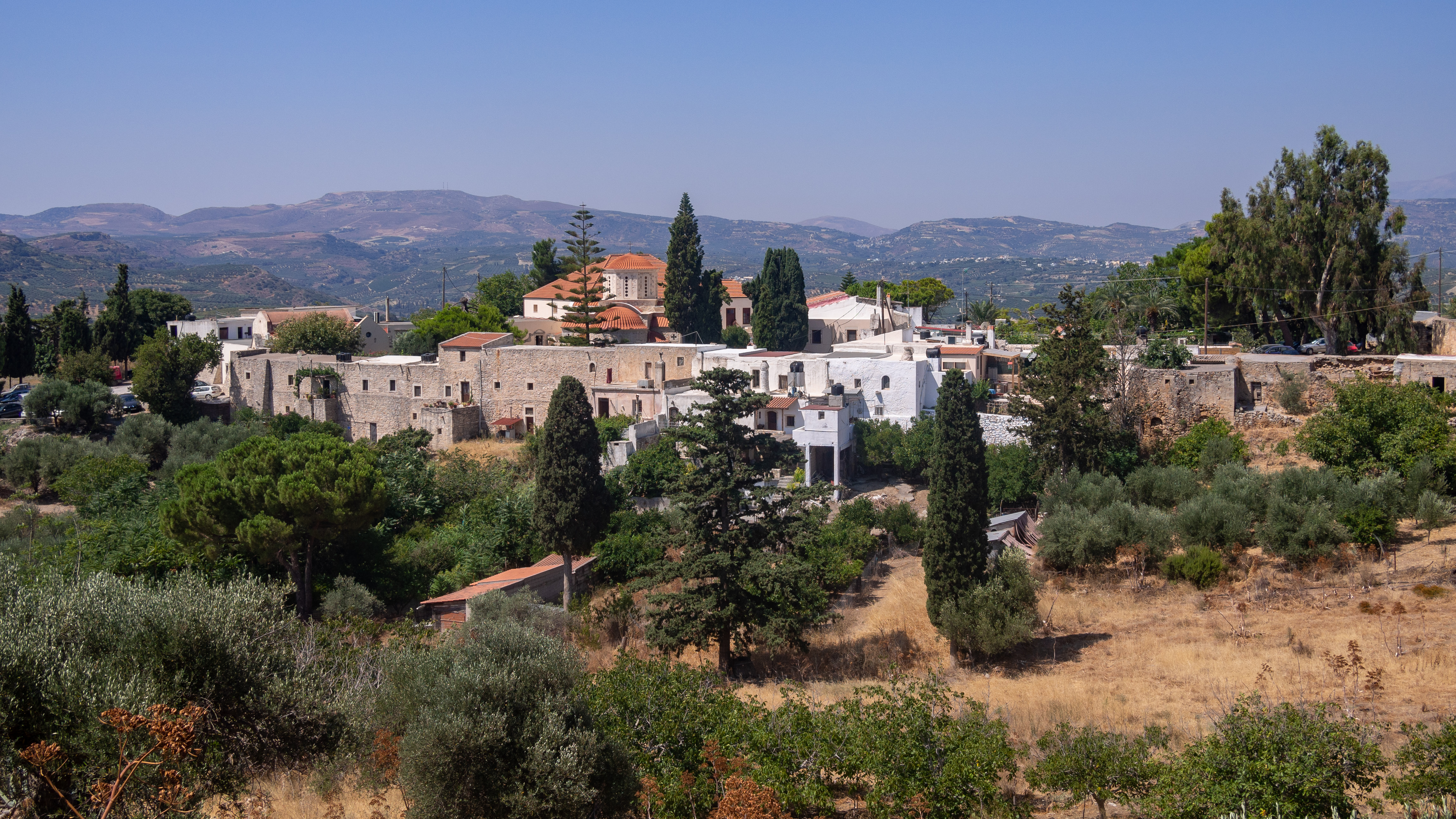 East view of Agarathou monastery, one of the largest in Crete.